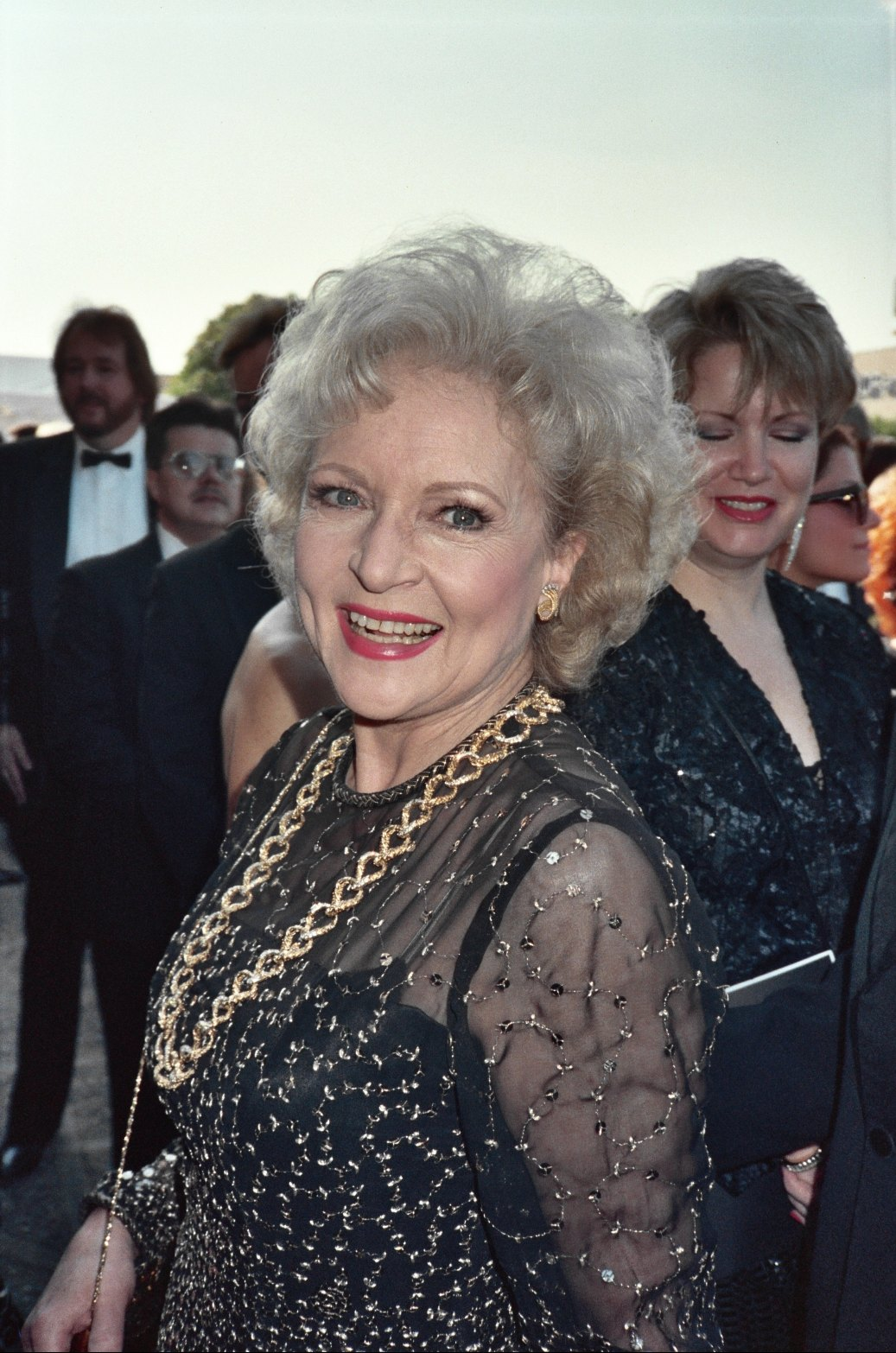 Photo taken at the 41st Emmy Awards 9/17/89 - Permission granted to copy, publish or post but please credit "photo by Alan Light" if you can